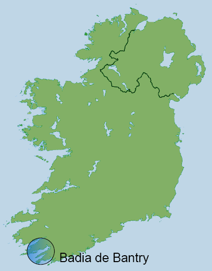 bantry bay in ireland